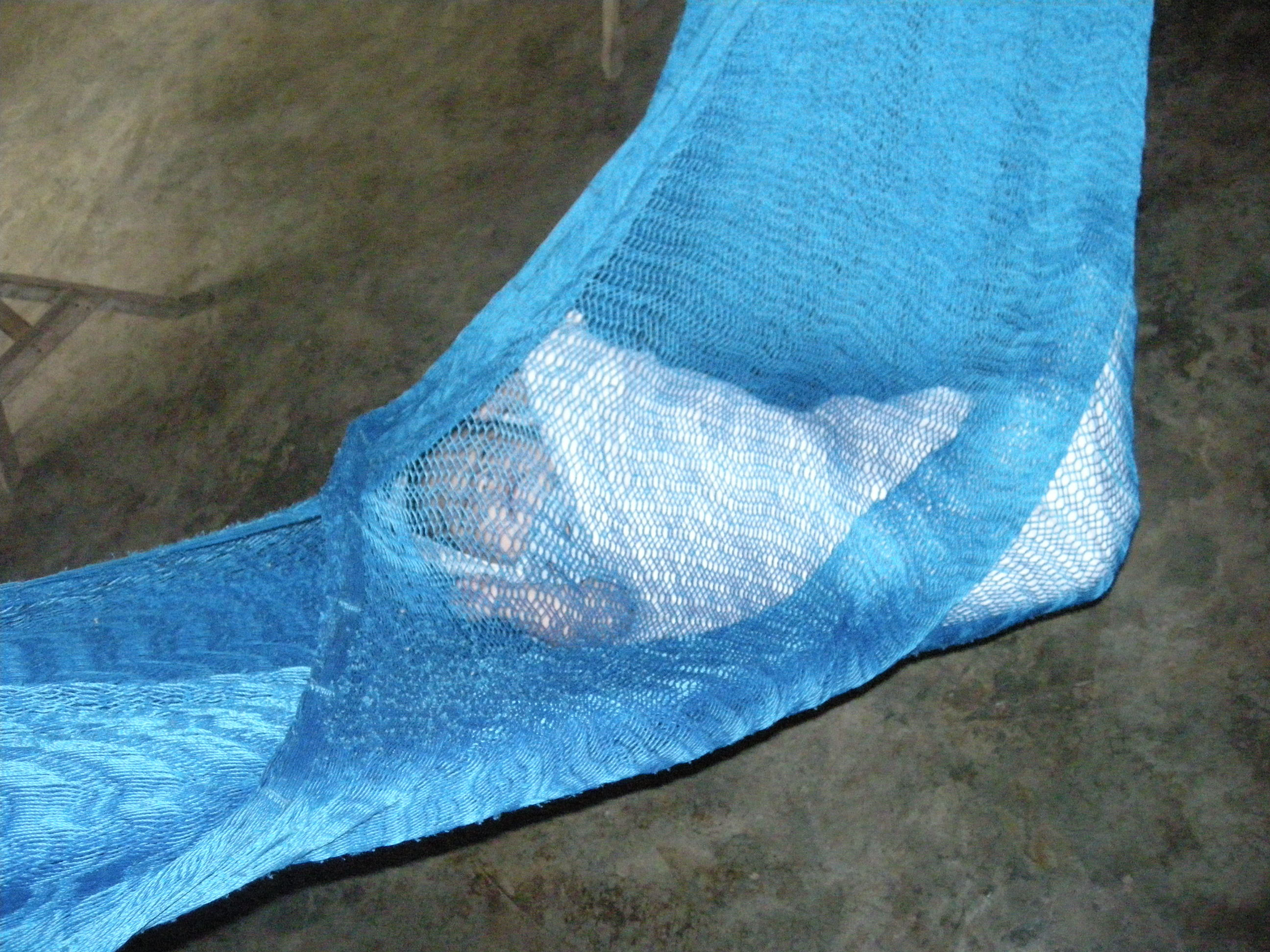 baby sleeping safe in a mexican hammock